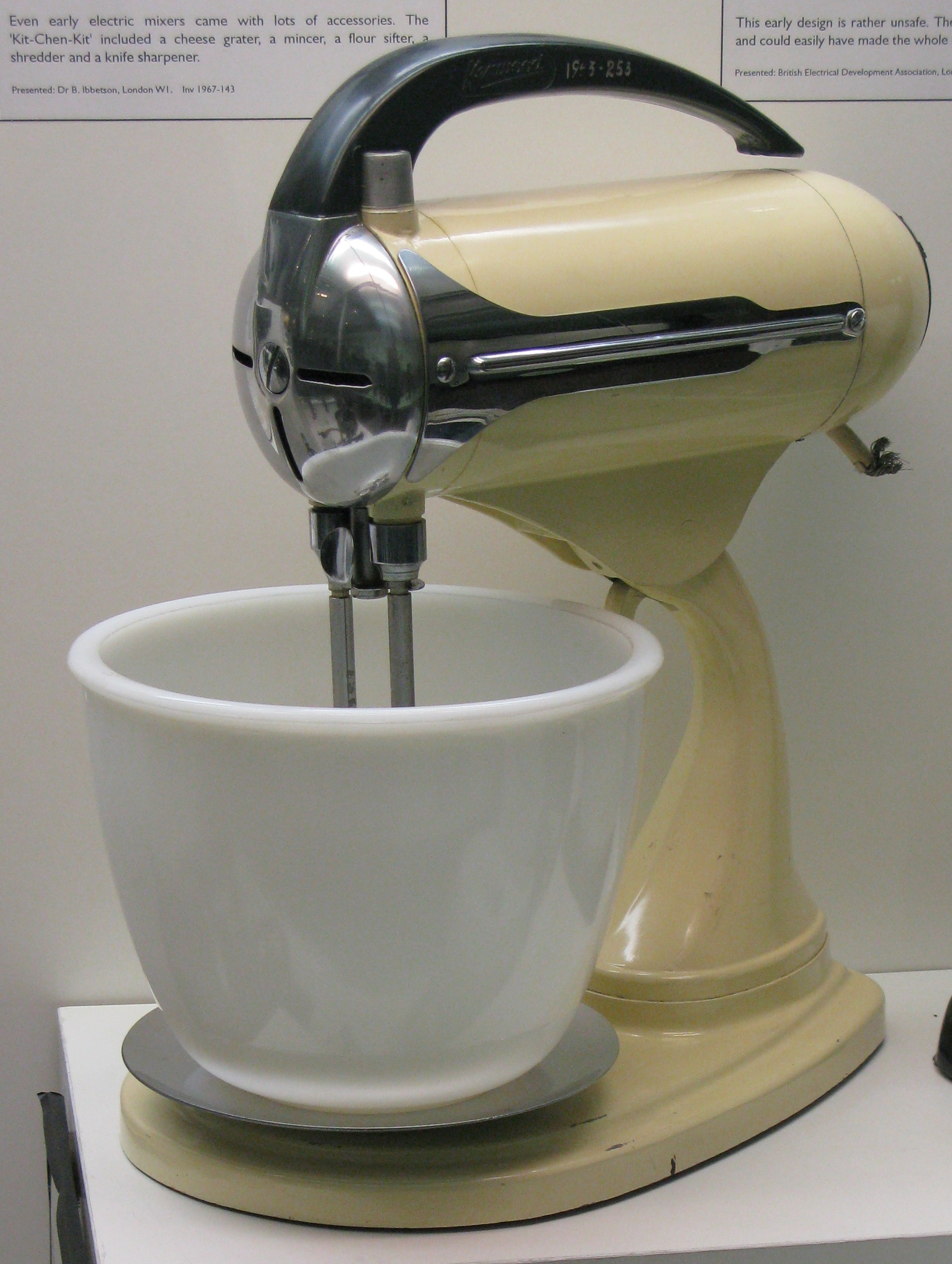 Photo of a Kenwood "Kenwood Chef" from 1948